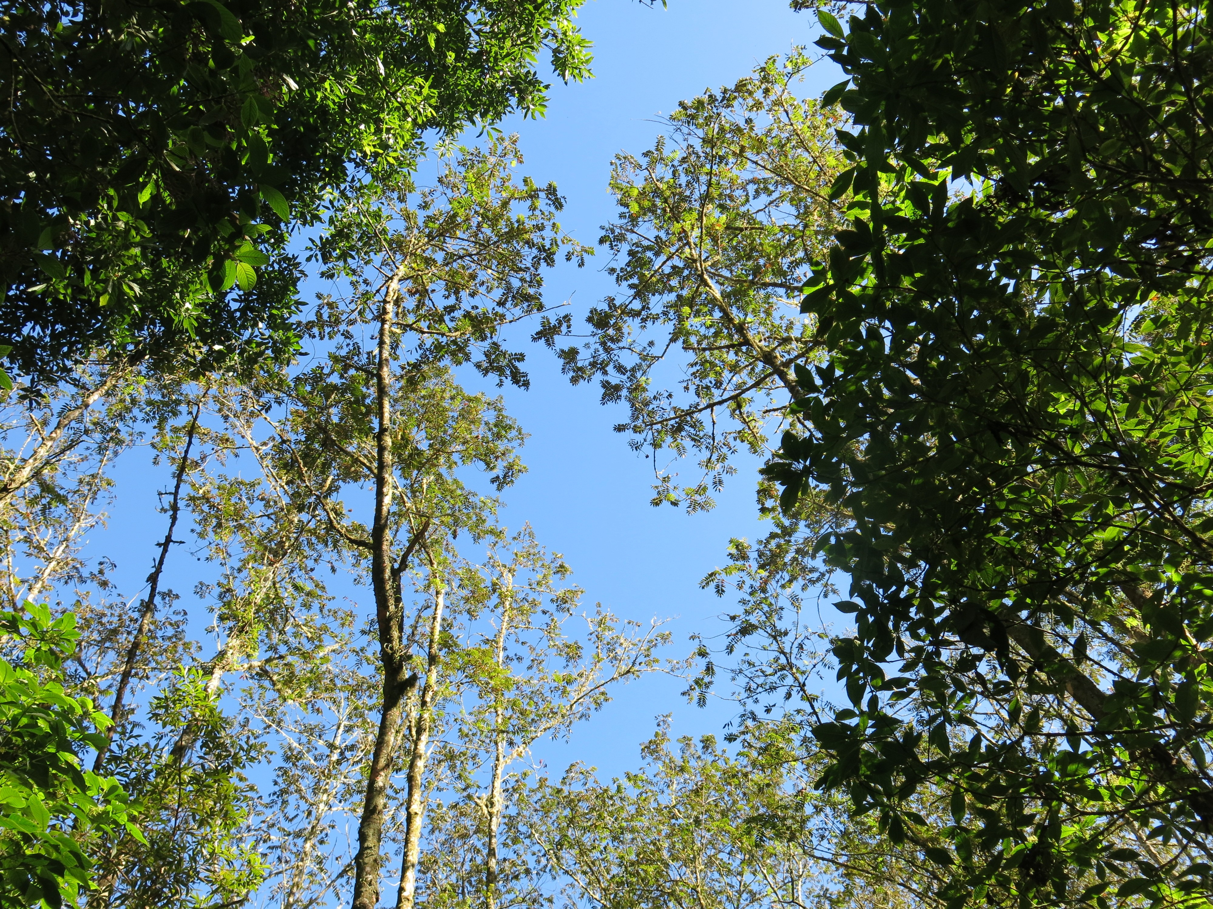 Tree in Sierra de Bahoruco National Park. Local name: Sangre de Gallo, Palo de Cotorra